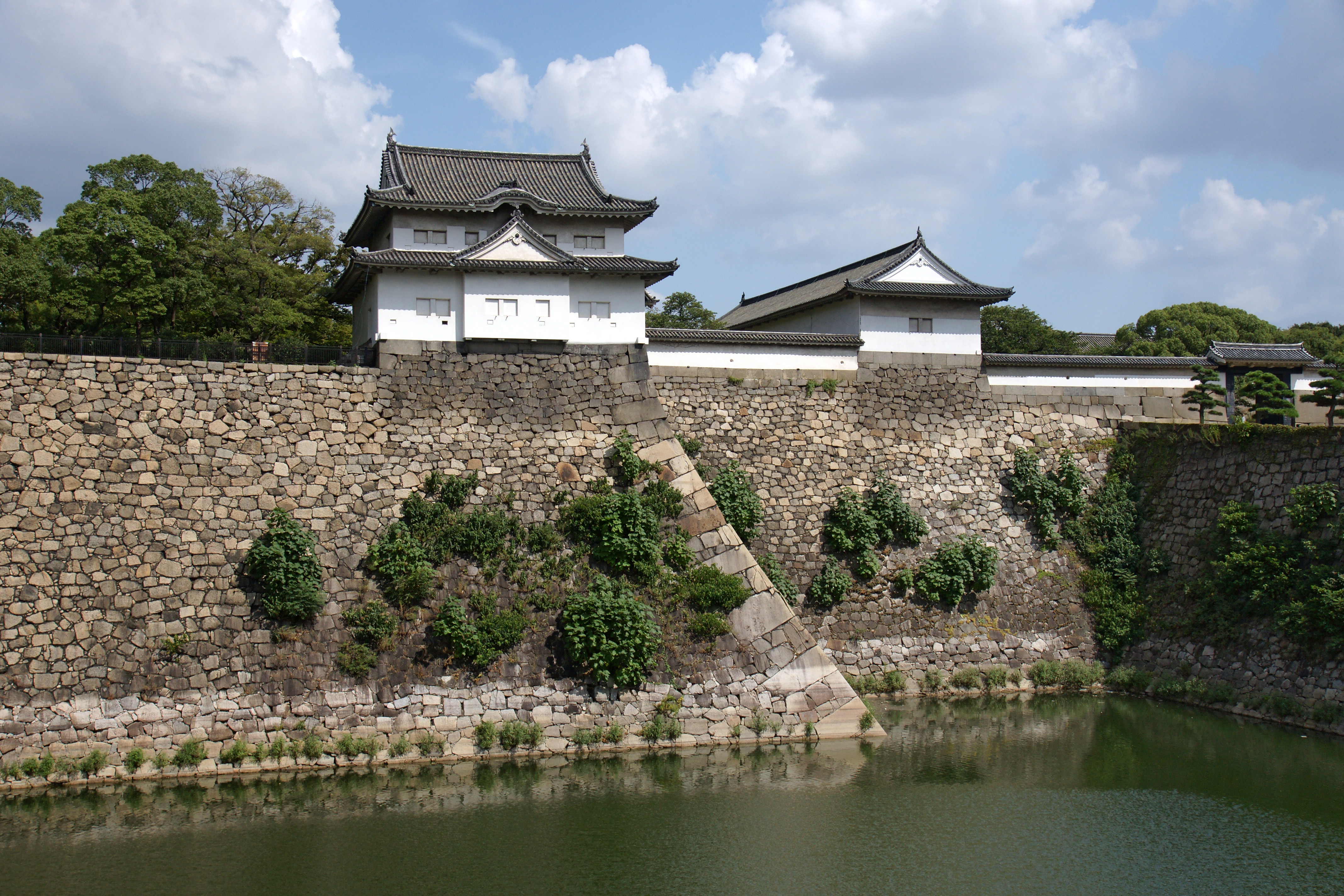 Osaka Castle in Chuo-ku, Osaka, Osaka prefecture, Japan